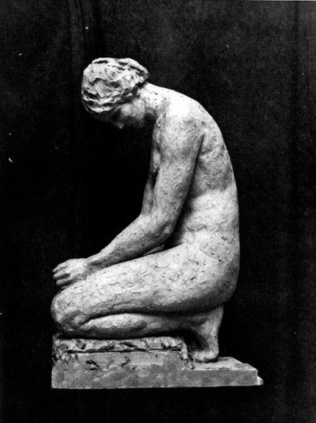 "Worship" sculpture, by Ralph Stackpole, for the altar of the Palace of Fine Arts, PPIE, San Francisco, 1915, reproduced in "The sculpture and mural decorations of the exposition : a pictorial survey of the art of the Panama-Pacific International Exposition", pg. 119, as found at Sculpture deteriorated and was destroyed by the 1930s